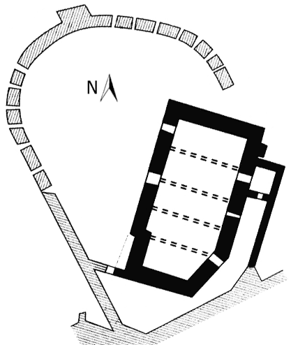 Plan of the Biel castle (Zaragoza, Spain)